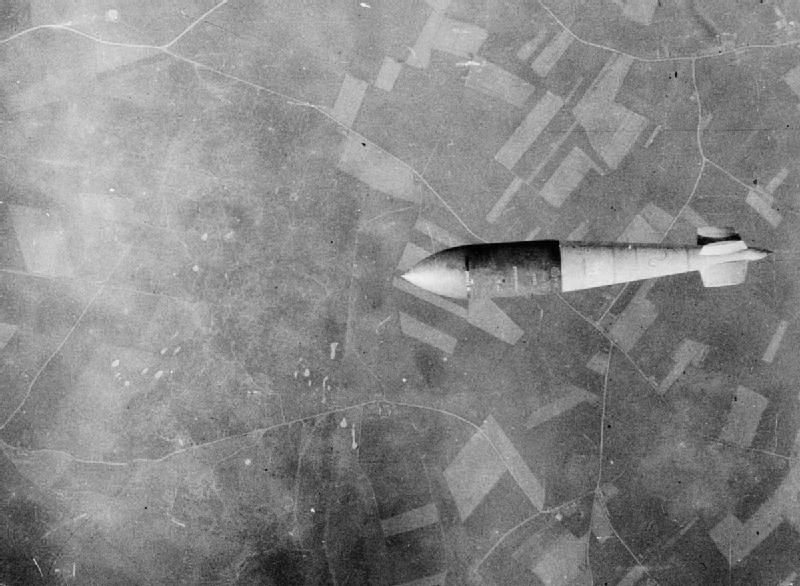 A 12,000-lb (5,443 kg) MC bomb (Bomber Command executive codeword 'Tallboy') seen immediately after its release from Avro Lancaster B Mark I (JB139) of No. 617 Squadron RAF over the flying-bomb store at Watten, France. The "Blockhaus d'Éperlecques" V-2 launch site was attacked on 19 June 1944 and 27 July 1944.